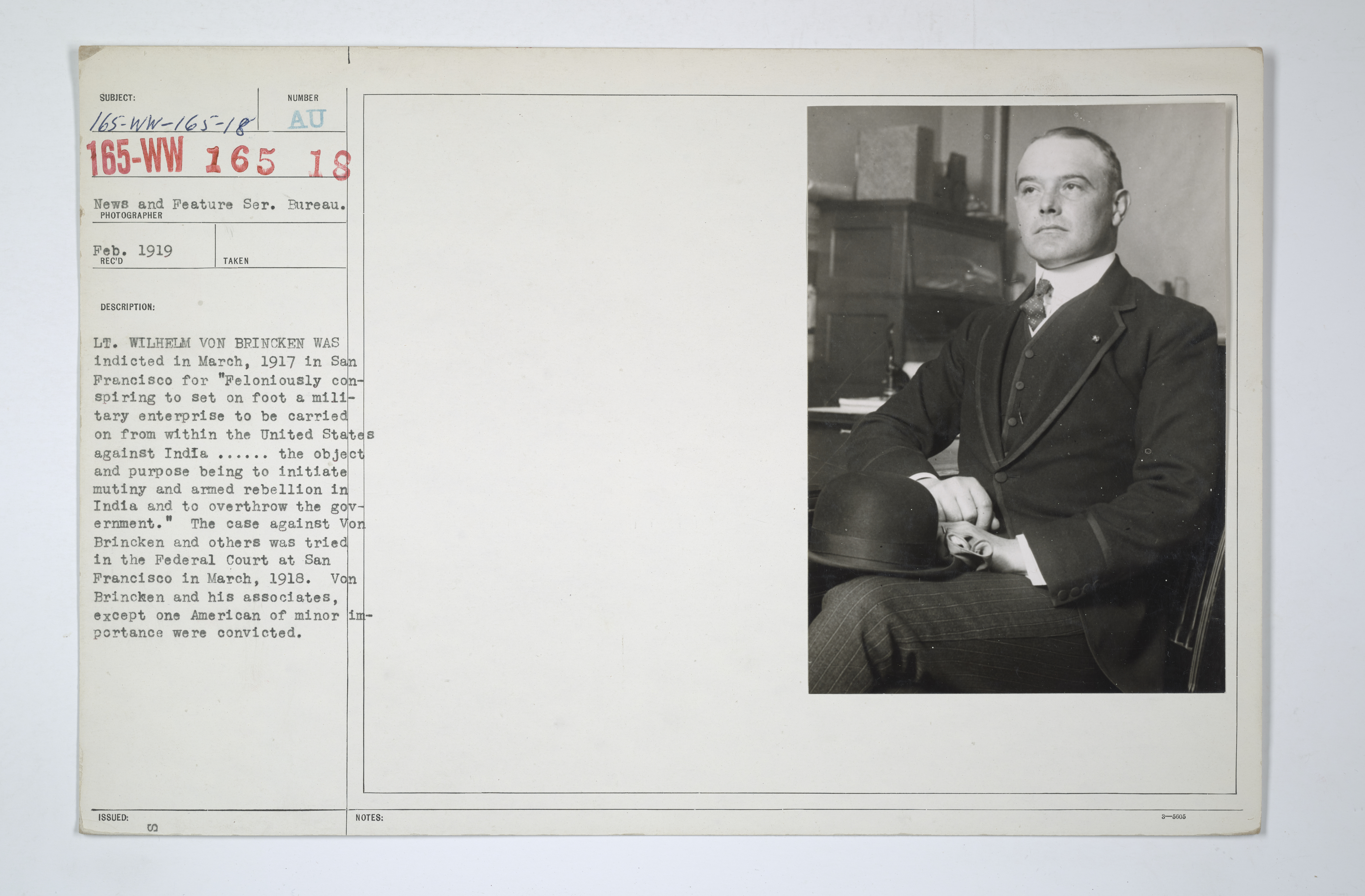 Scope and content: Original Caption: Lieutenant Wilhelm Von Brincken was indicted in March 1917 in San Francisco for "feloniously conspiring to set foot on a military enterprise to be carried on from within the United States against India … the object and purpose being to initiate mutiny and armed rebellion in India and to overthrow the government." The case against Von Brincken and others was tried at the Federal Court at San Francisco in March 1918. Von Brincken and his associates, except one American of minor importance were convicted. Photographer: News and Feature Service Bureau